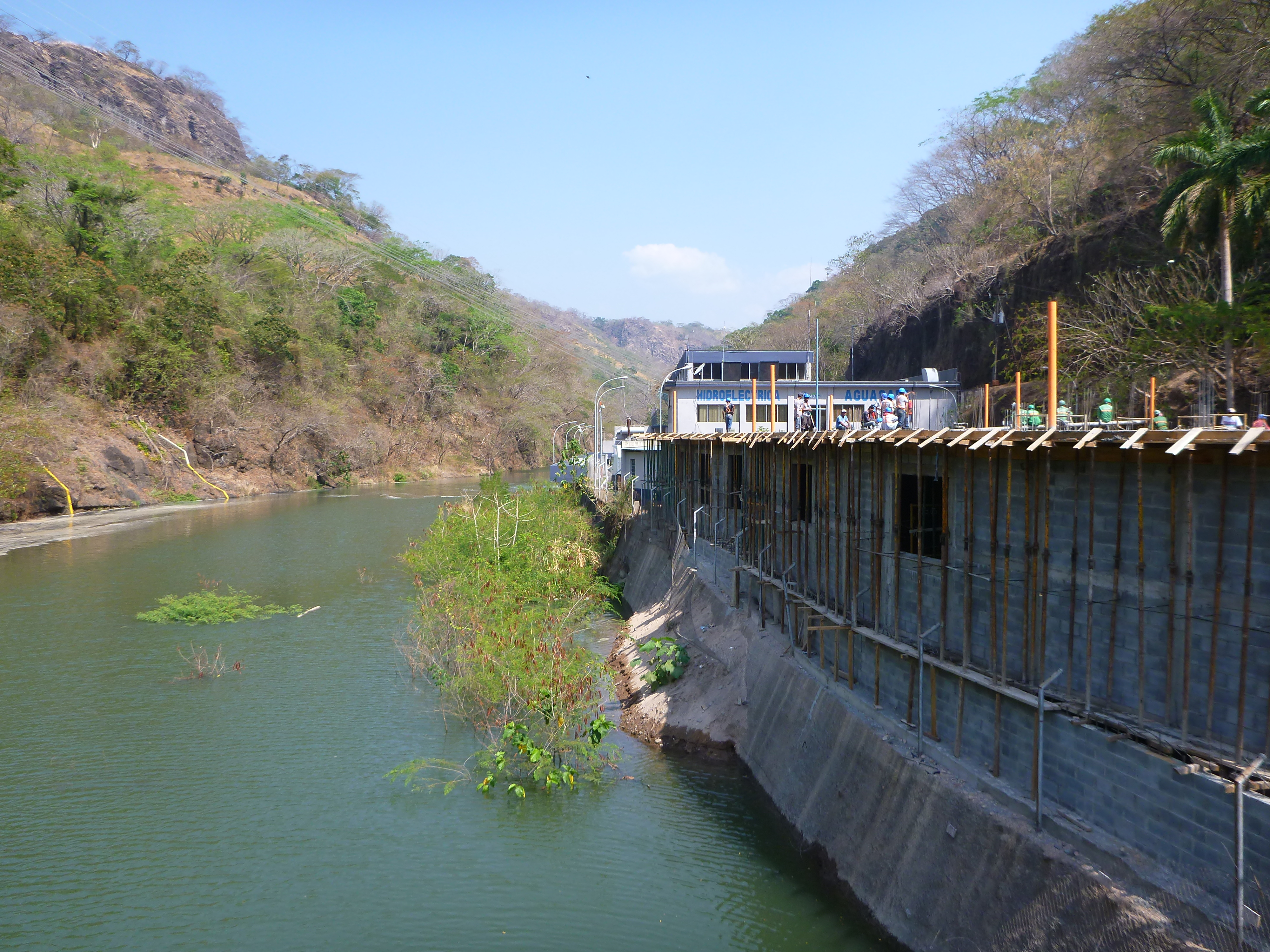 Aguacapa Hydroelectric Power Plant, built in 1981 in Escuintla, Guatemala.